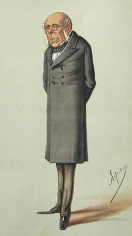 Caricature of George Villiers, 4th Earl of Clarendon. Caption read "To say that he is the best foreign minister in the country is not much as foreign ministers go; but as times go it is a great deal".